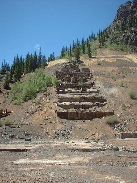 The old mining community of Eureka, Colorado, now a ghost town.